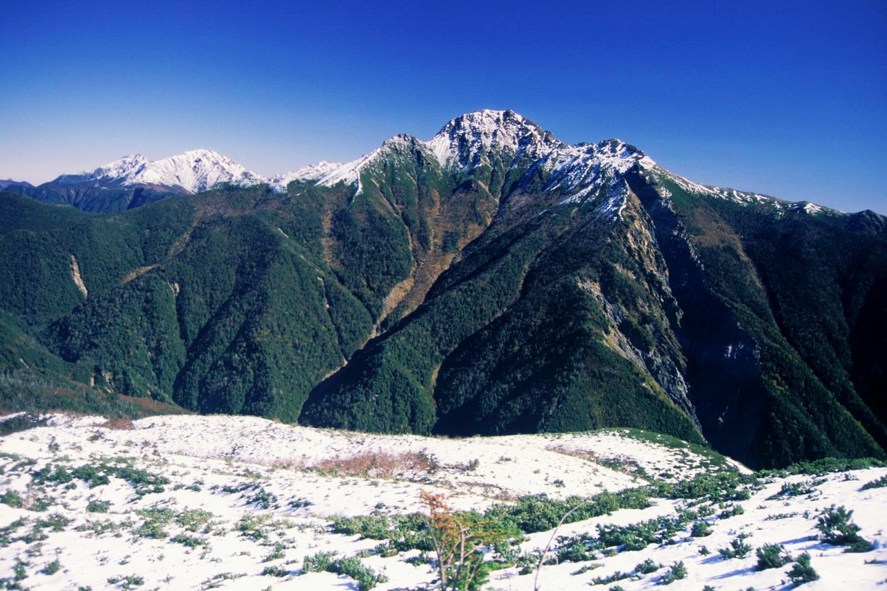 Mount Shiomi from_Eboshidake